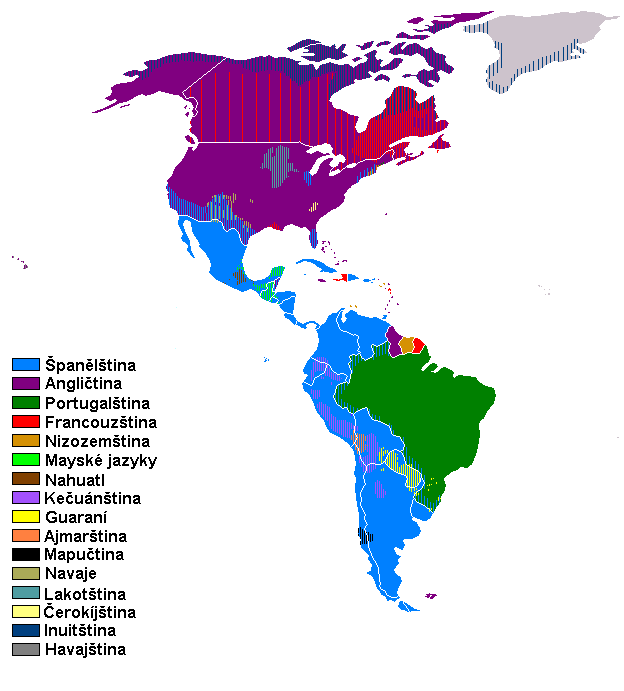 Languages of the Americas